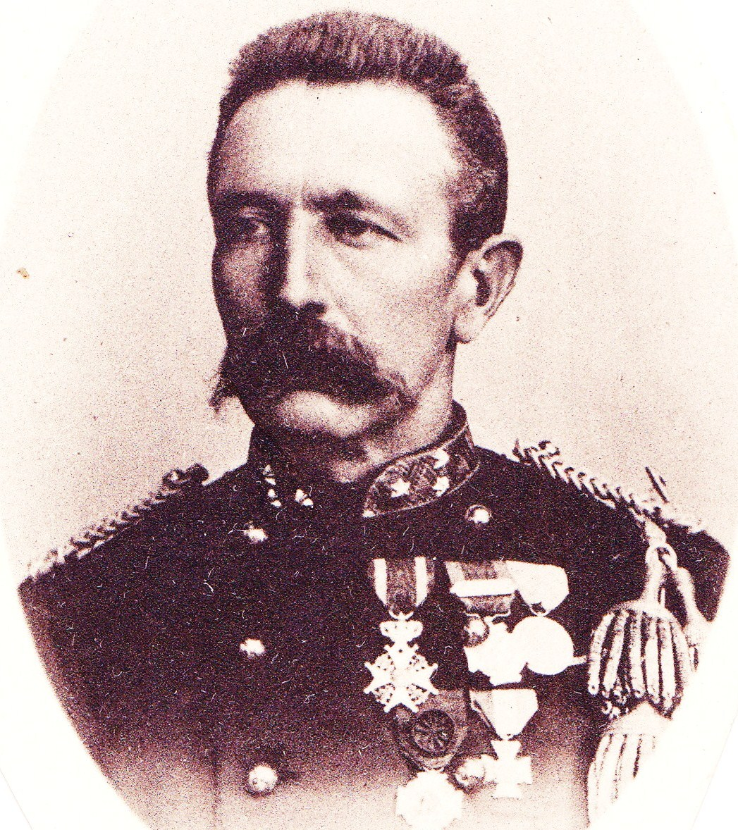 Generaal Lanzing